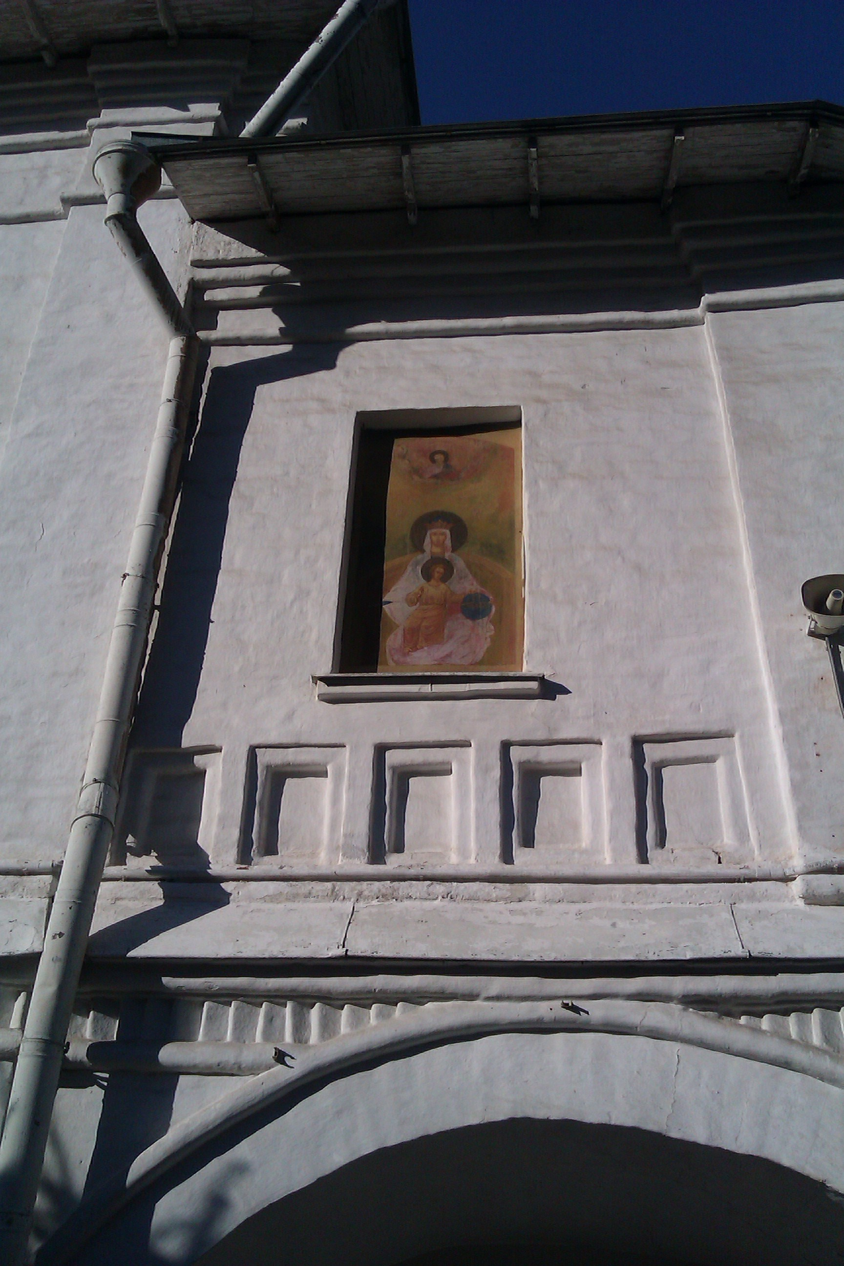 Theotokos Derzhavnaya icon replica on the wall of the Church of the Theotokos of Kazan in Kolomenskoye where it's kept.